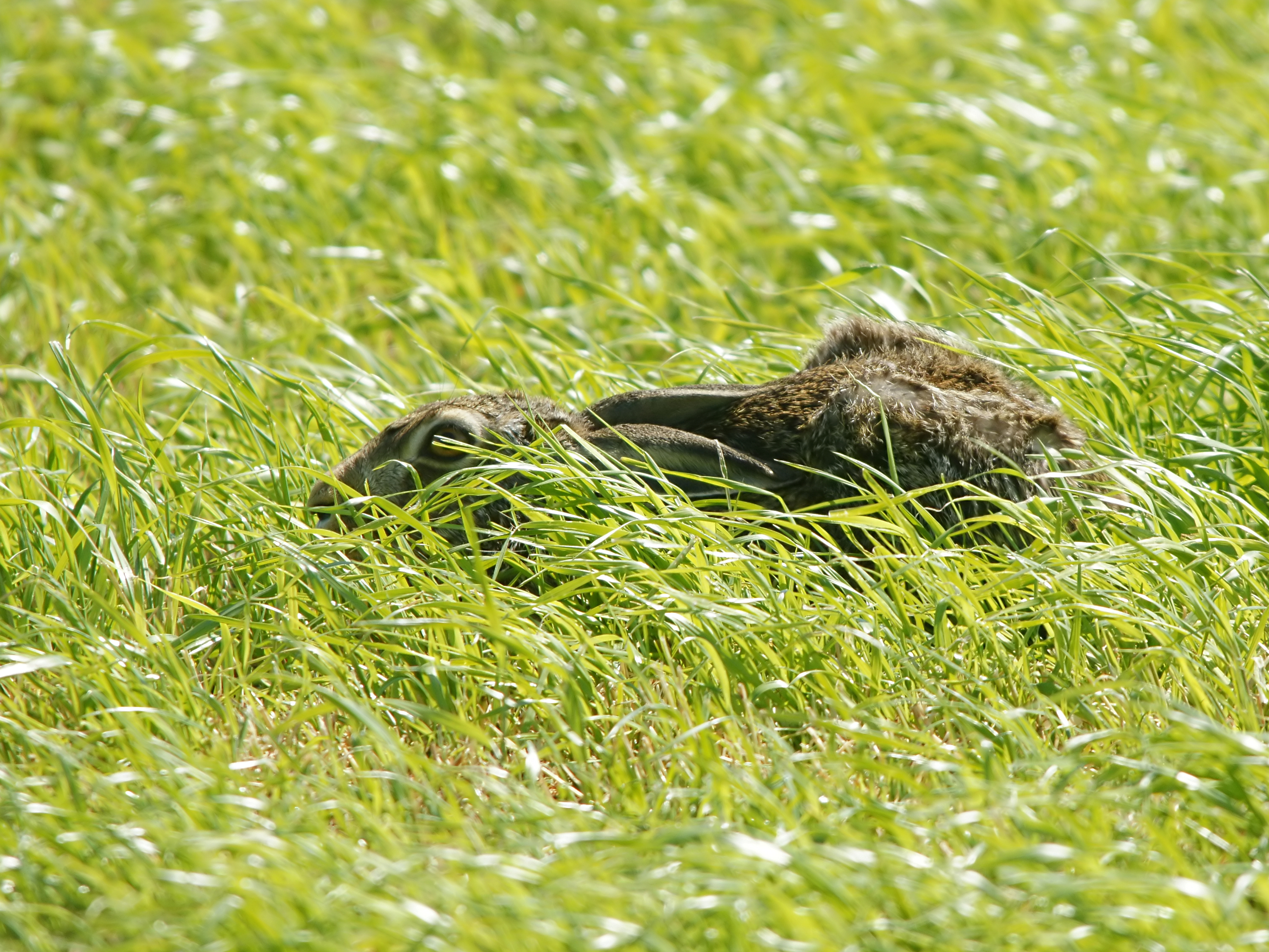 European Hare displaying typical hiding behaviour at Uitkerkse Polders, Belgium